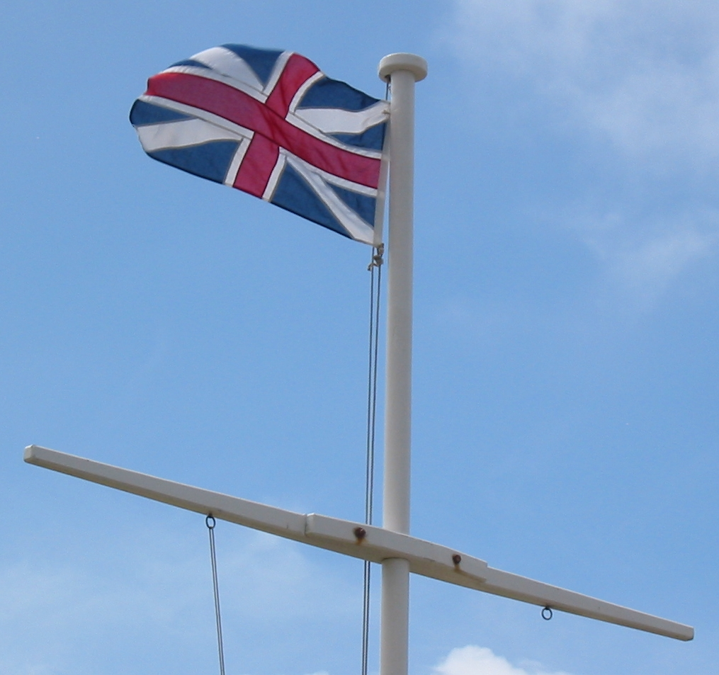 Elizabeth Castle, Jersey